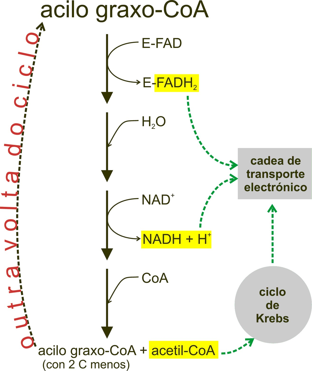 diagram of beta oxidation of fat acids jpg